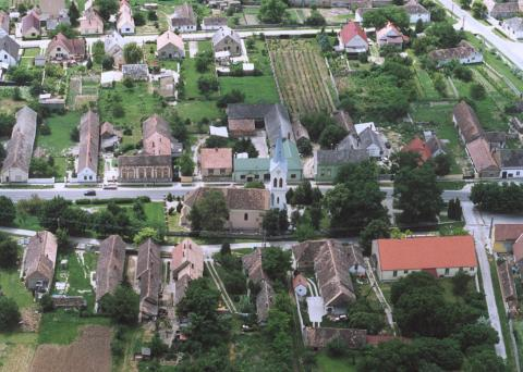 Nagyharsány, Hungary, aerialphotography